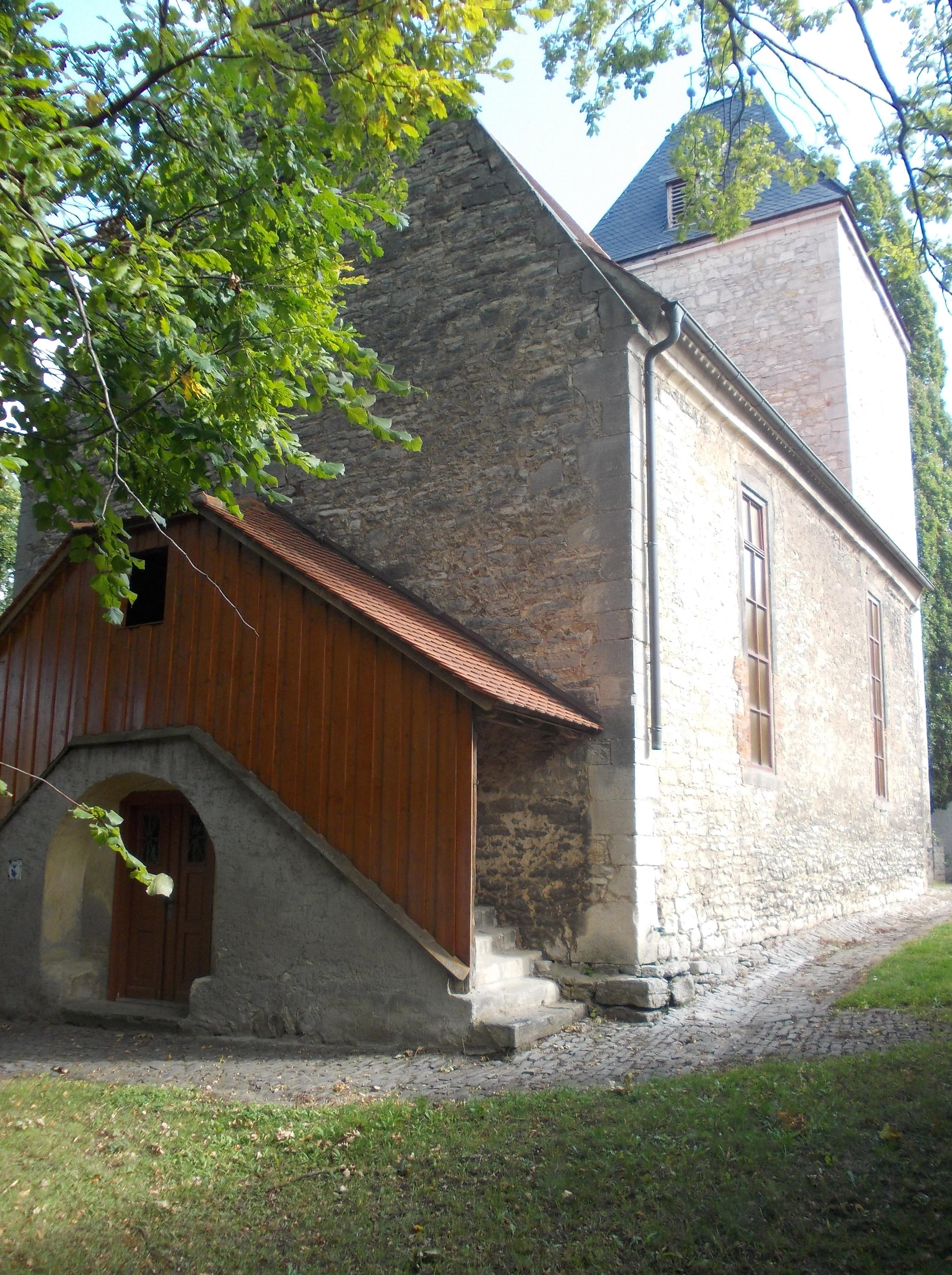 Hassenhausen church (Naumburg, district: Burgenlandkreis, Saxony-Anhalt)